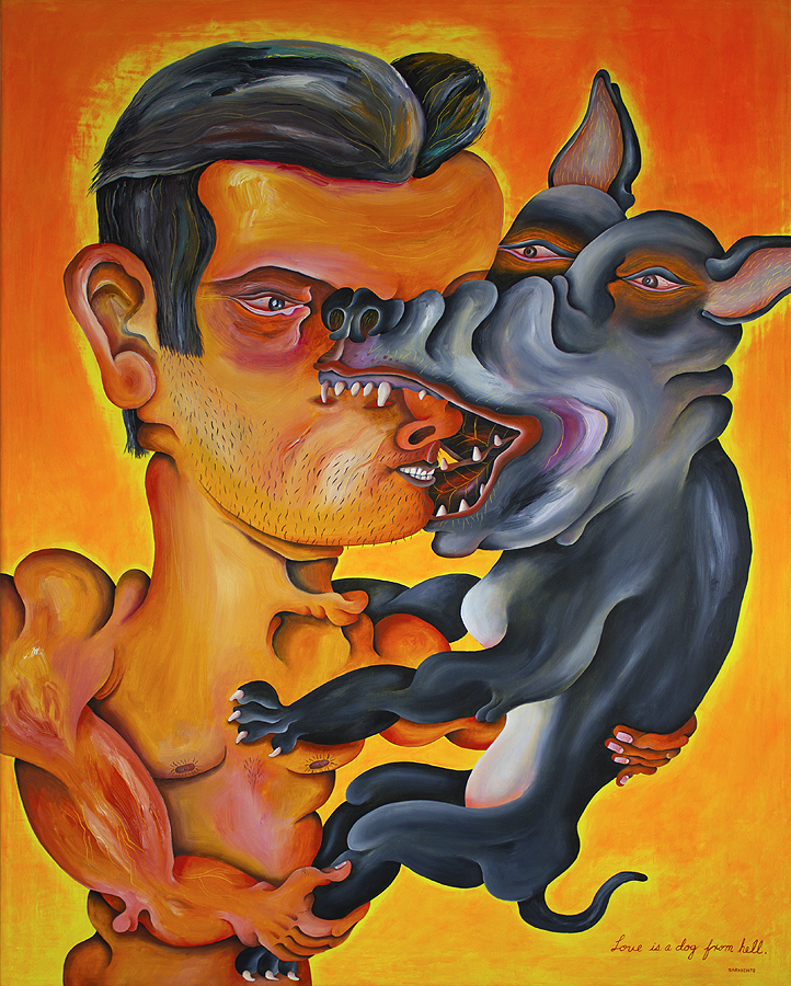 Eduardo Sarmiento, Love is a Dog from Hell. Oil on canvas, 24x30 in. 2012